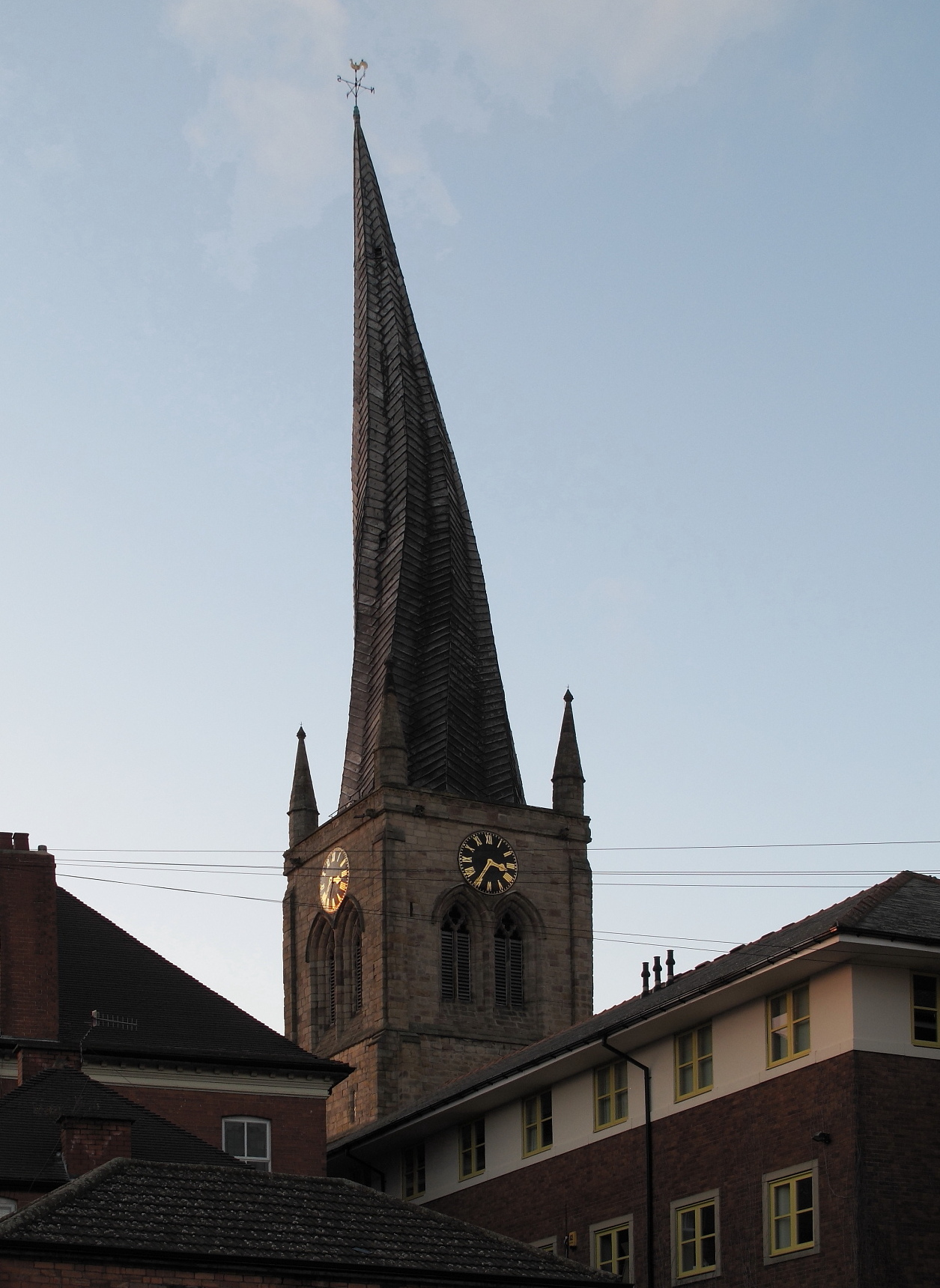 Spire of St. Mary's Church, Chesterfield, Derbyshire, UK. This view shows the extent of the twist.